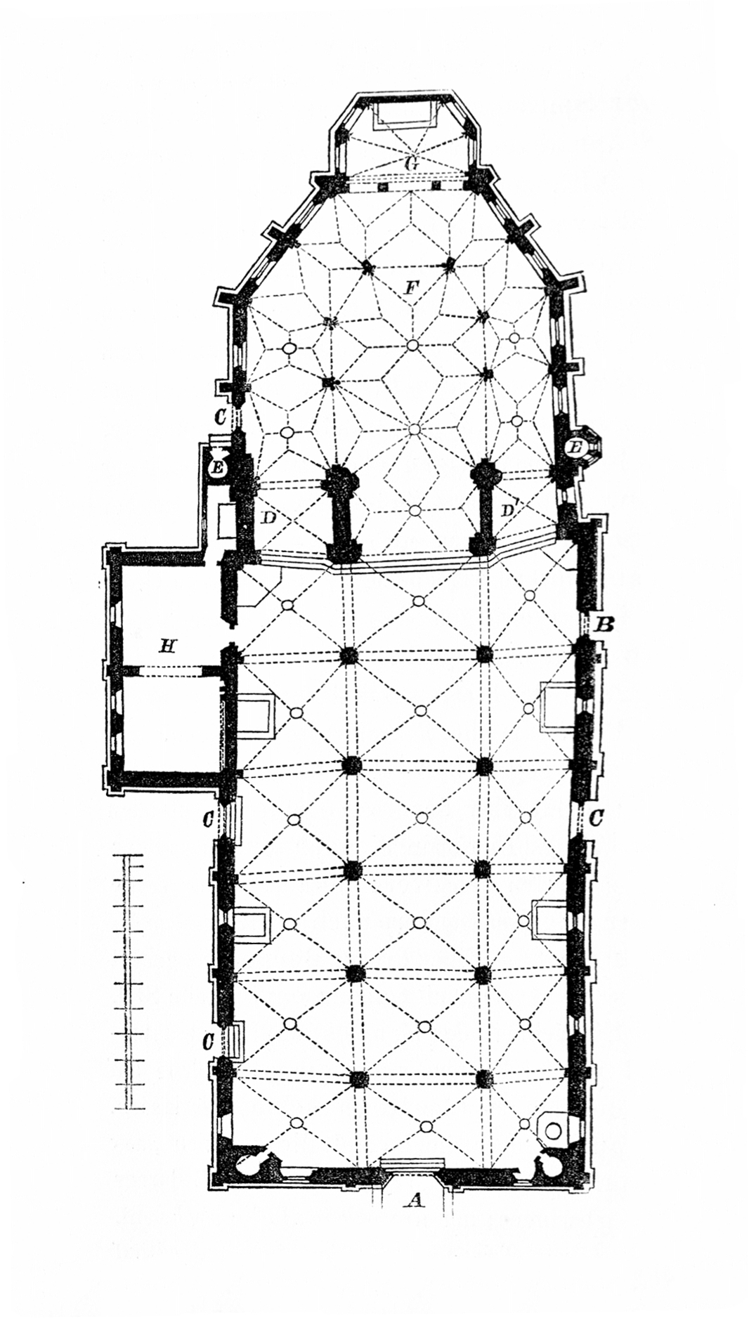 Bilder (Holzschnitte) aus dem in derselben Kategorie befindlichen Artikel aus den Mittheilungen der kaiserl. königl. Central-Commission zur Erforschung und Erhaltung der Baudenkmale Band 2, 1857. Scanprojekt Bundesdenkmalamt Österreich This scan or this PDF-file was created within the Austrian Wikipedia-project Denkmalpflege Österreich (German only) supported by Wikimedia Germany and Wikimedia Austria as part of the Wikipedia community-project to collect public domain documents from the library of the Heritage Monuments Board of Austria. This document describes or depicts an object which is located in Italy today. Send requests for uncompressed scans to Hubertl. This work is in the public domain in the United States, and those countries with a copyright term of life of the author plus 100 years or less. This file has been identified as being free of known restrictions under copyright law, including all related and neighboring rights.